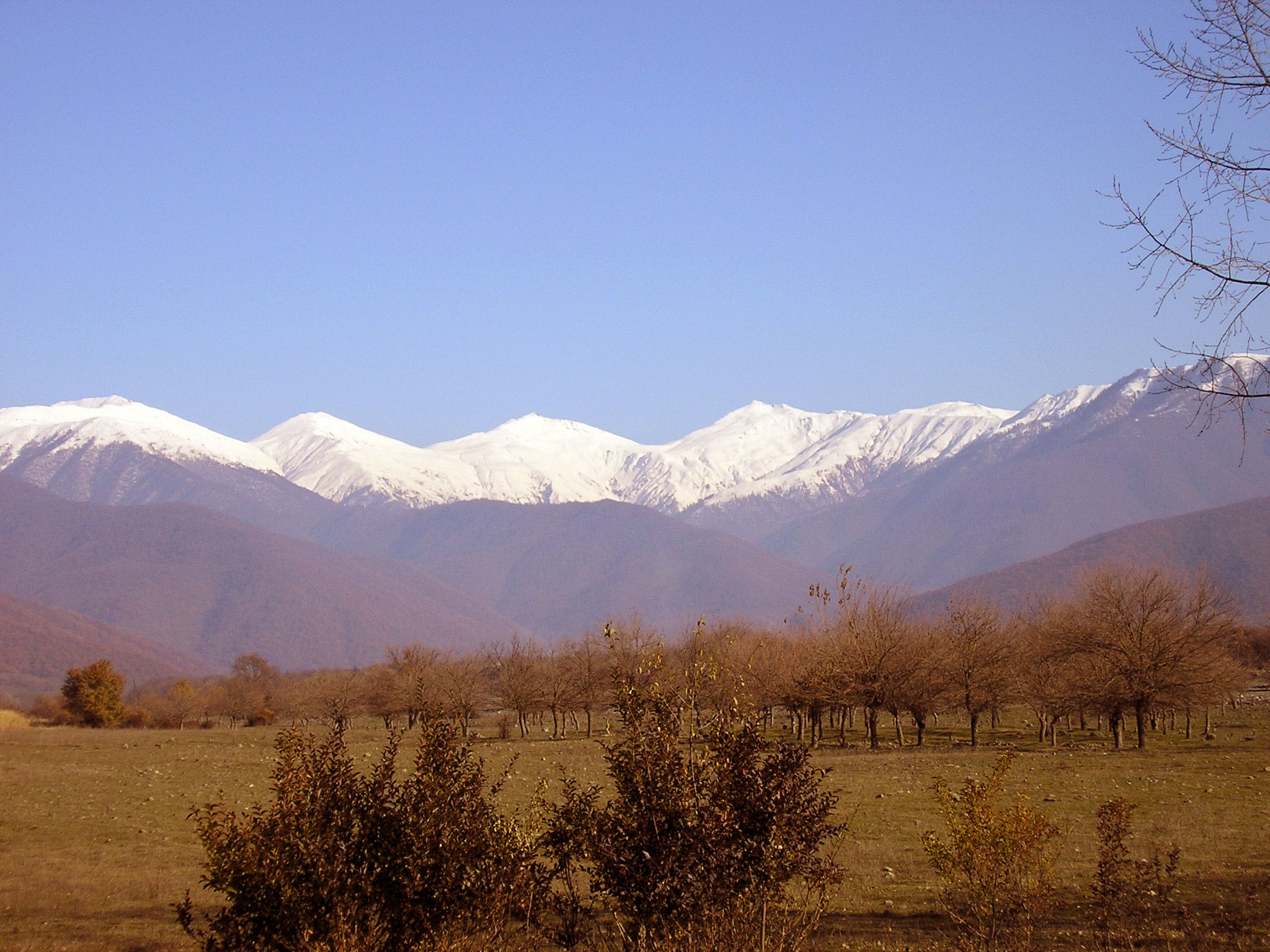 The Greater Caucasus Mountains in Georgia